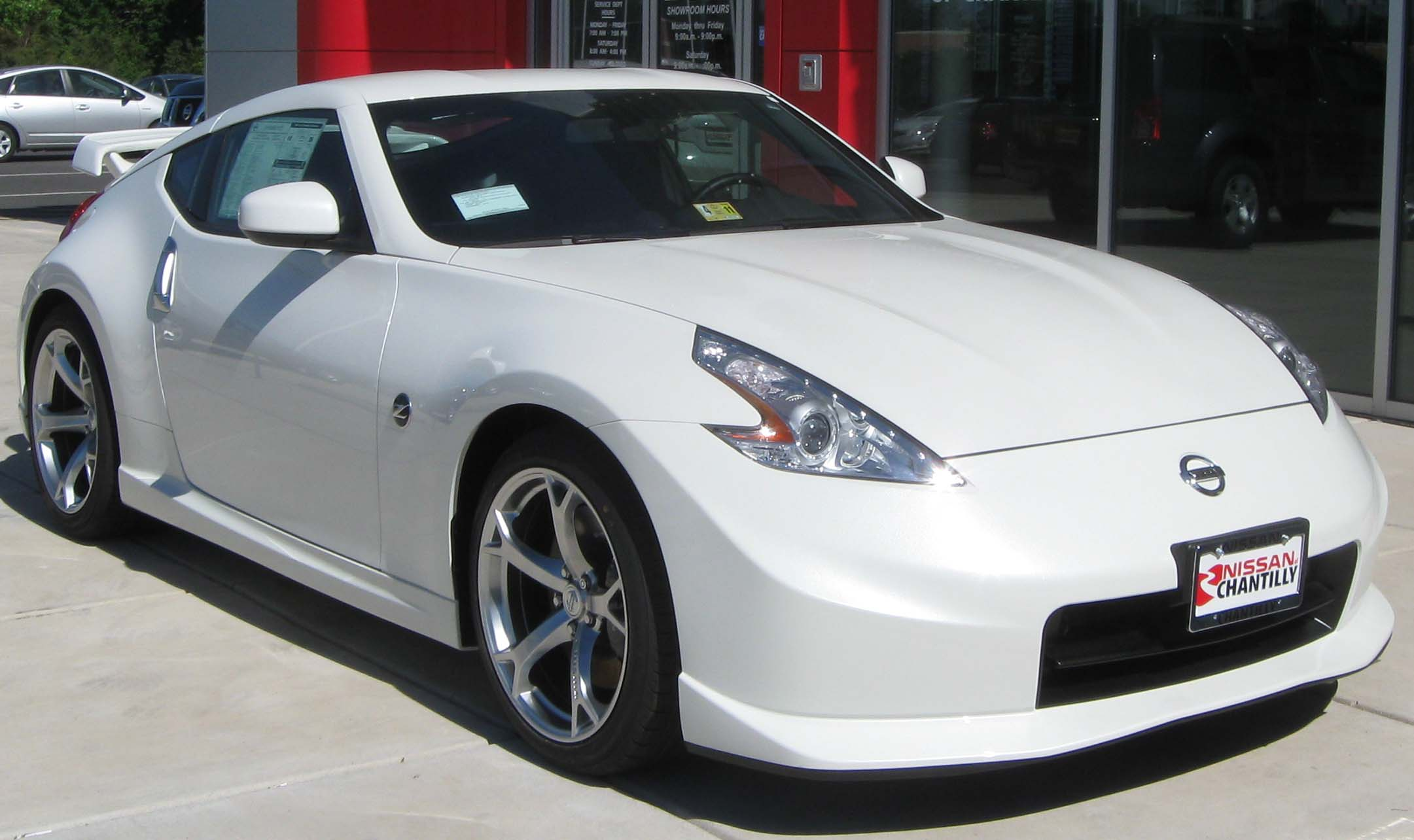 2010 Nissan 370Z photographed in Chantilly, Virginia, USA.